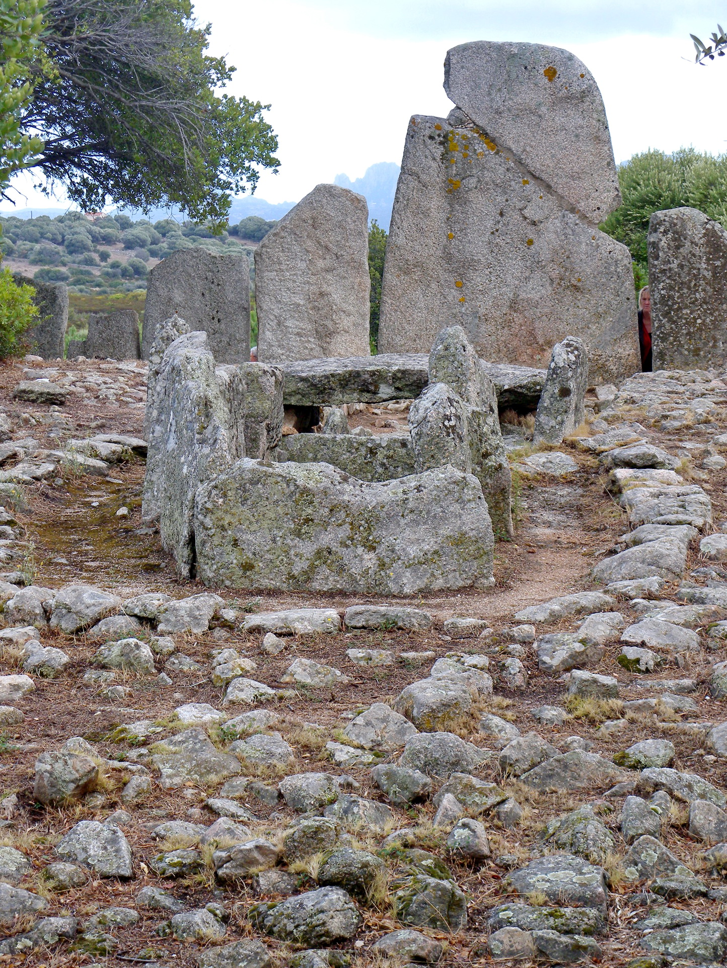 domus de janas in Arzachena-Li Lolghi